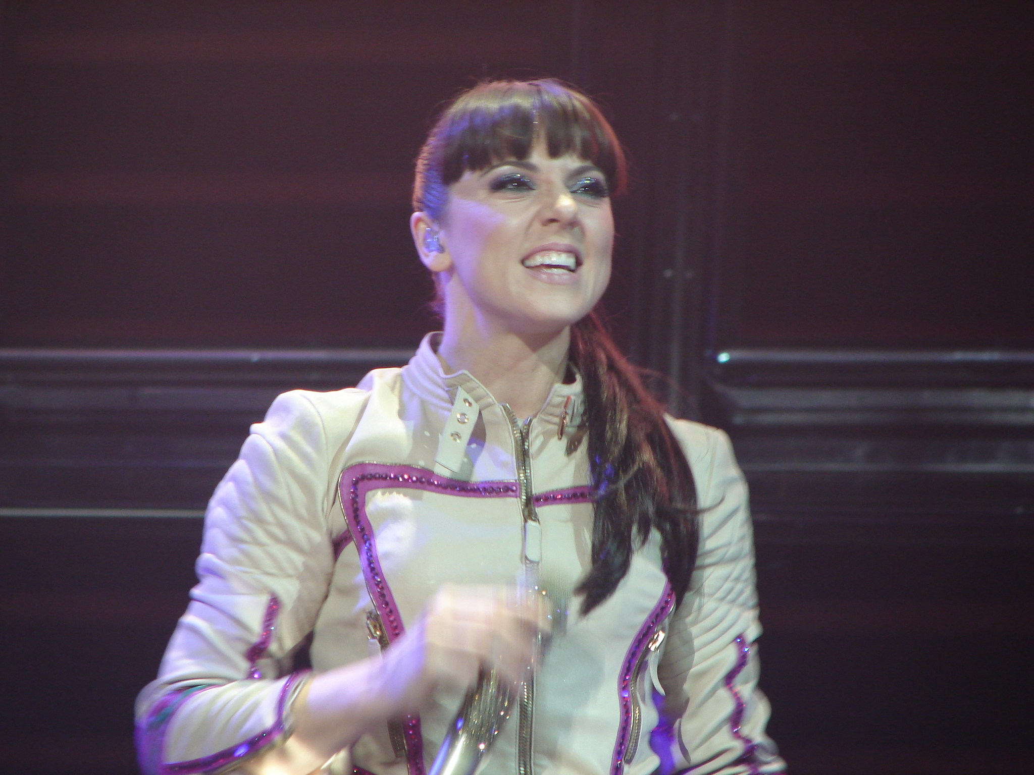 Melanie C performing on the Spice Girls Re-Union Tour in 2007.